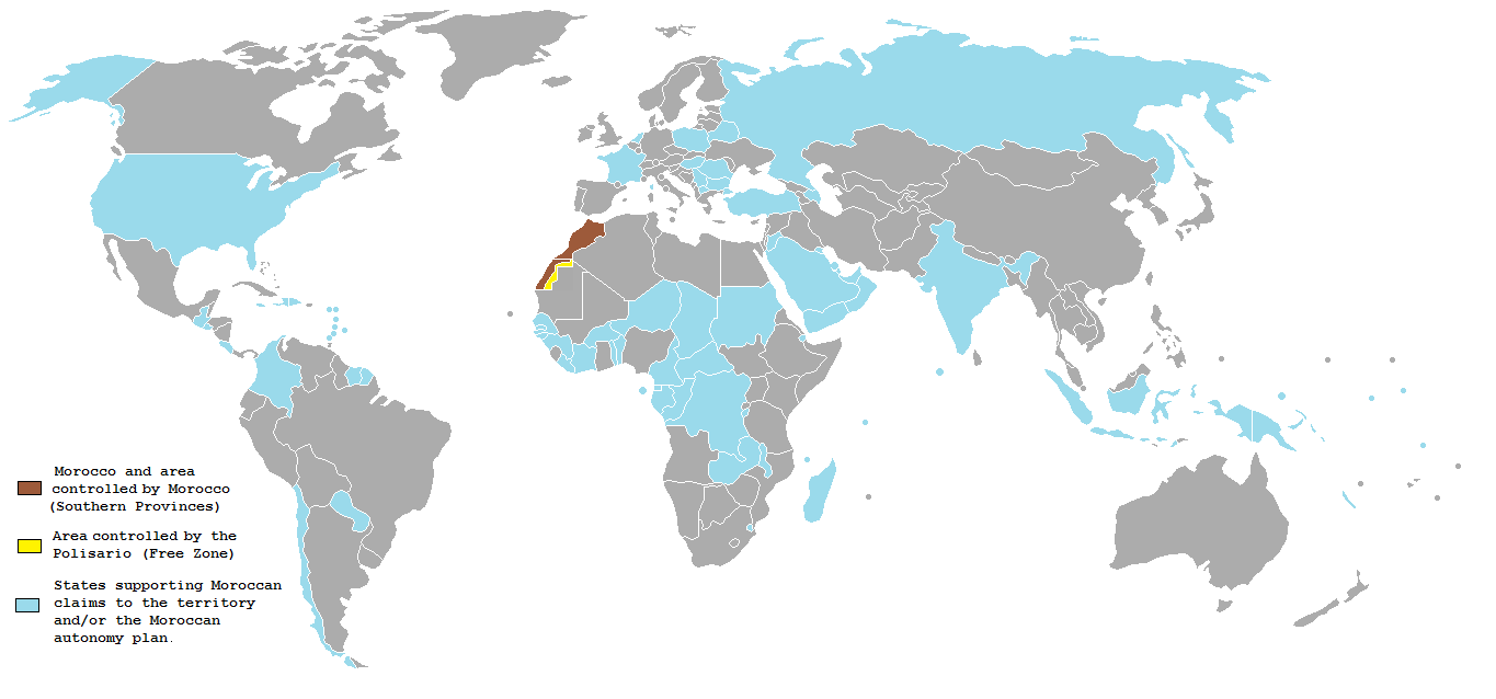 Map showing states that support Moroccan claims on the territory and/or the Moroccan autonomy initiative.